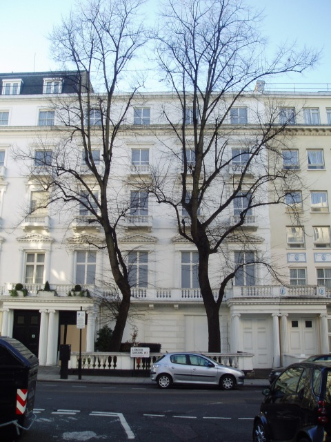 23/24 Leinster Gardens, the "fake house" Closer inspection of these two "houses" reveals that they're a complete fake. These are no houses - they're a facade to disguise the fact that the circle line comes to the surface at this point. The front door and windows are actually painted concrete.